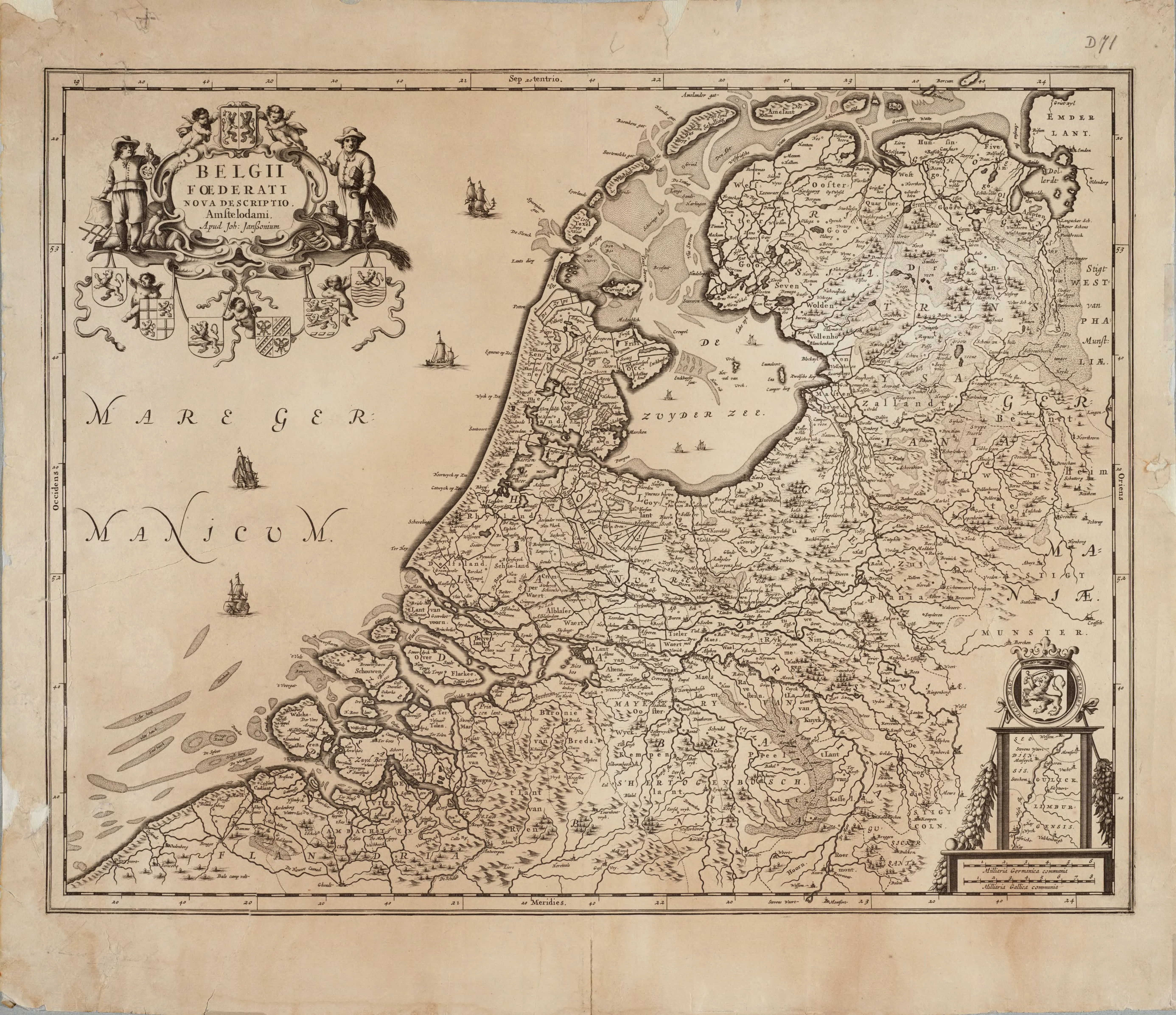 Map of the Republic of the Seven United Netherlands Drawn by Joannes (or Johannes) Janssonius, part of his collection Belgii Foederati Nova Descriptio Published in Amsterdam